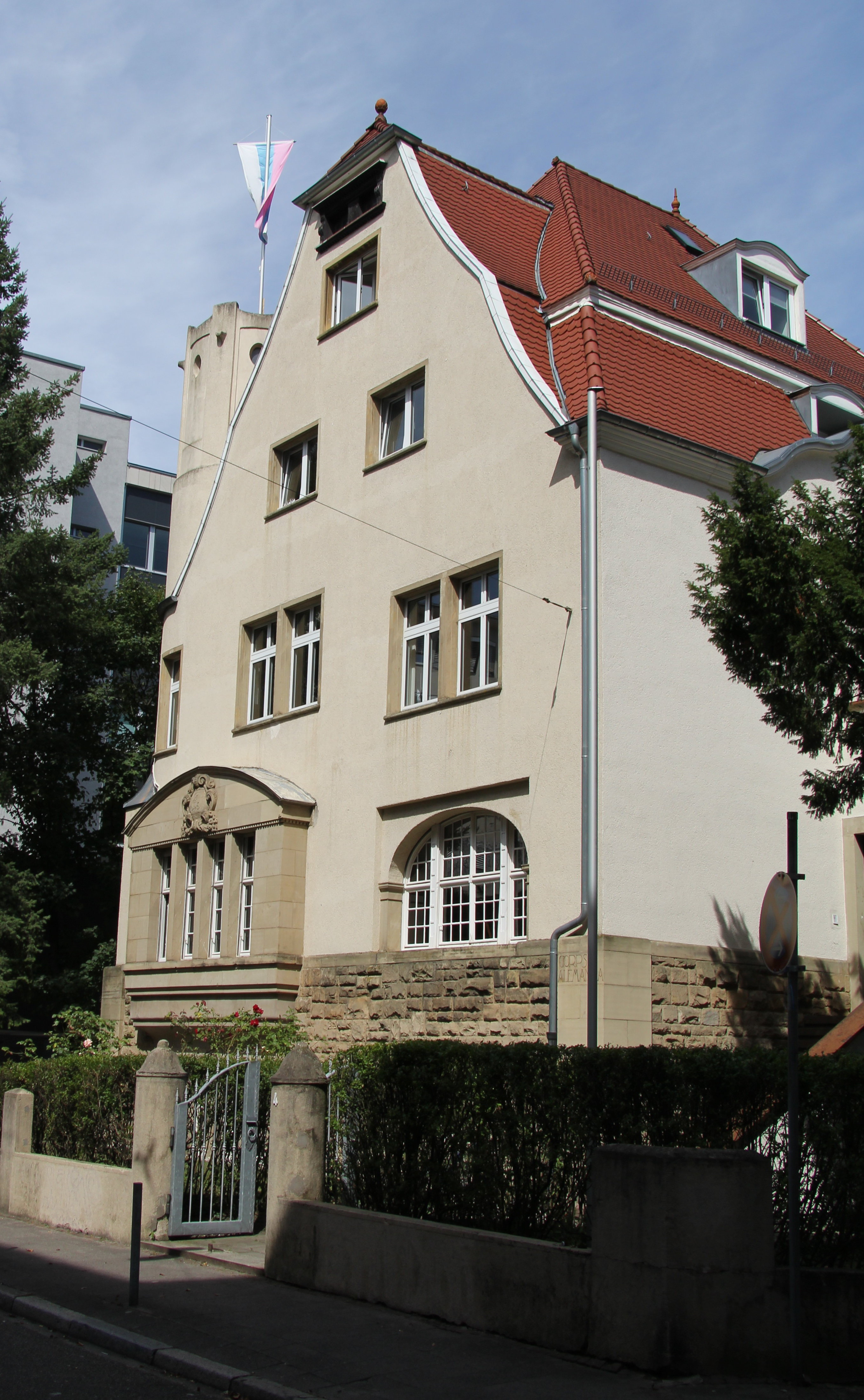 House of student fraternity Corps Alemannia Karlsruhe, Nowackanlage 4, Karlsruhe / Germany